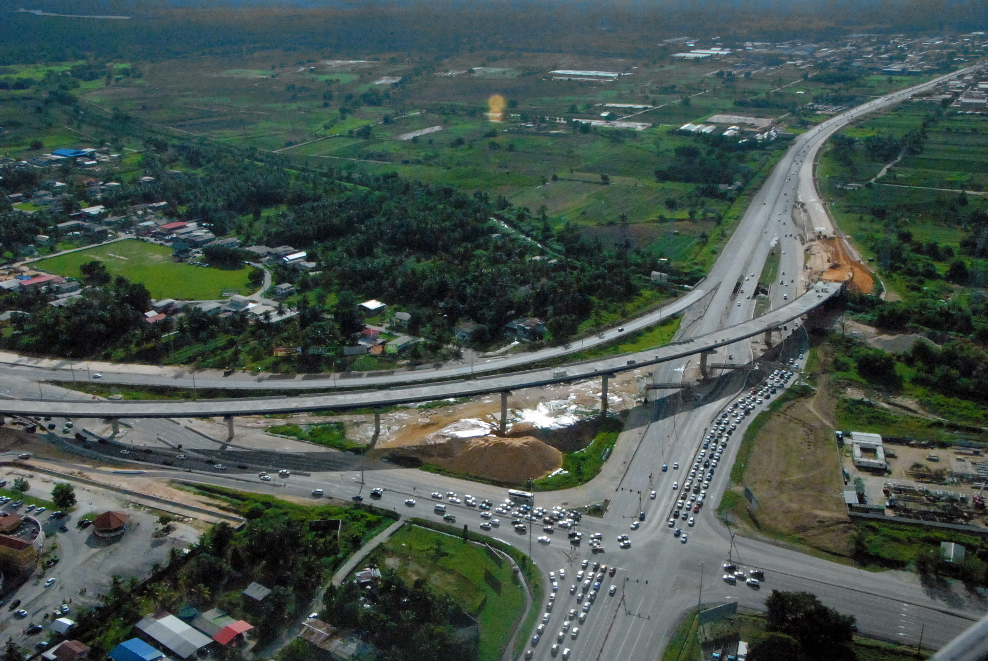 source: self date: 2009 description: UBH-CRH intersection in Trinidad